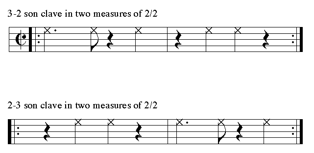 son clave in 3-2 and 2-3